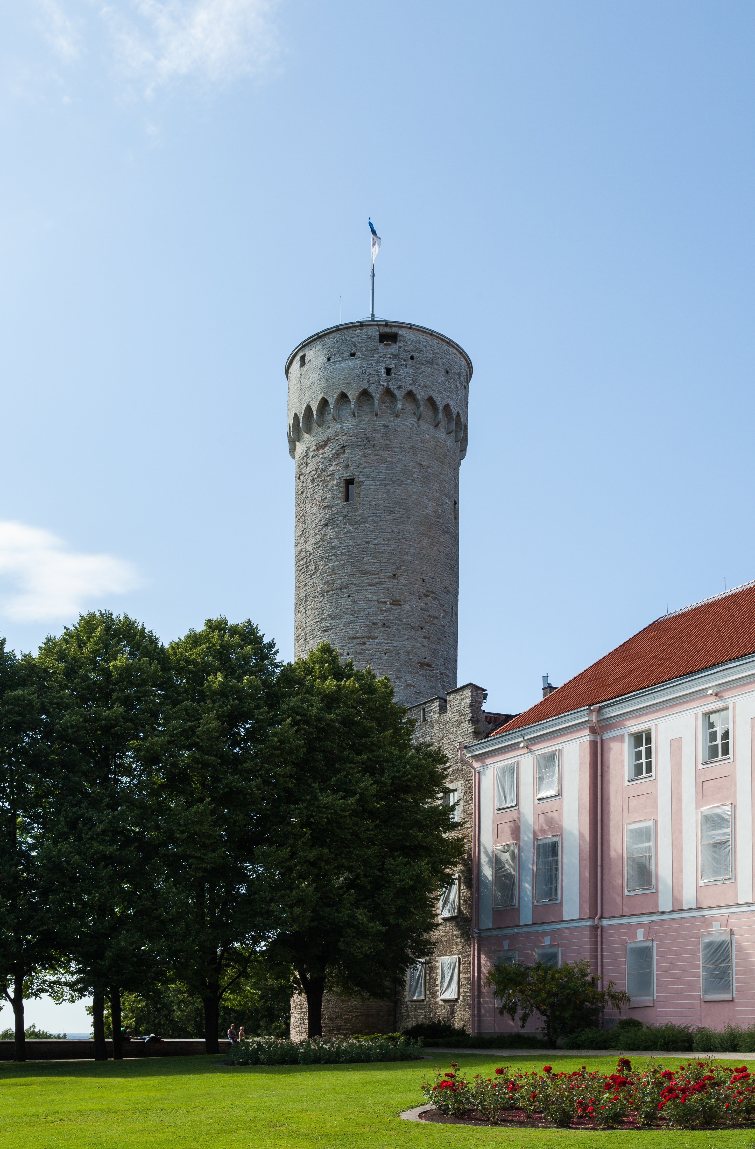 Pikk Hermann, Toompea castle, Tallinn, Estonia